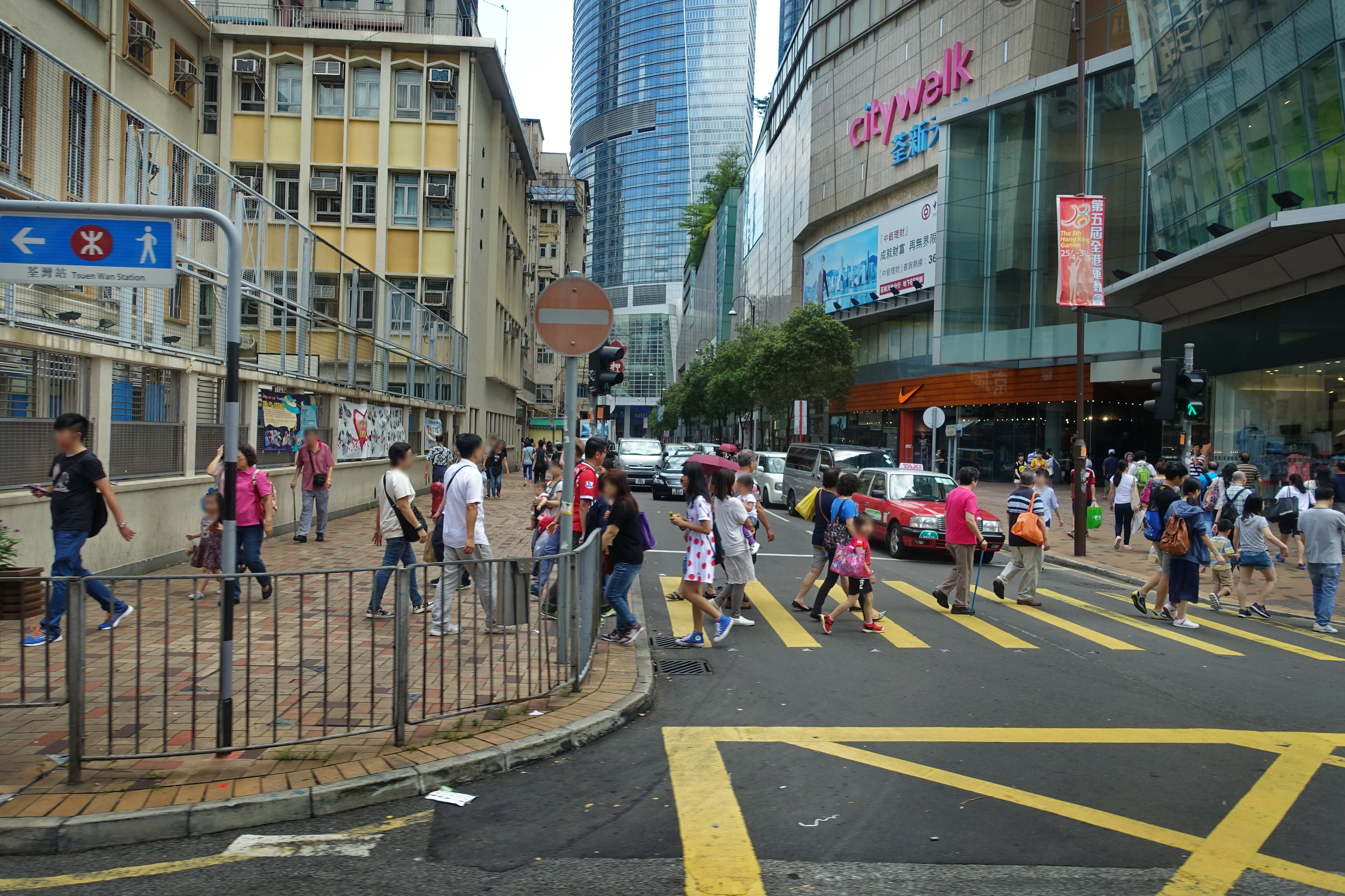 Looking south from Sha Tsui Road to Wo Tik Street, Tsuen Wan (Hong Kong)